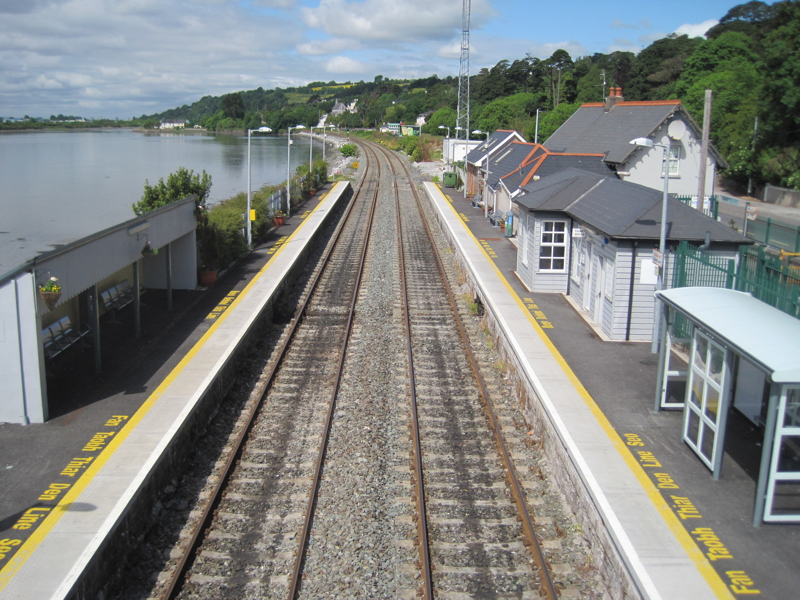 Glounthaune railway station, County Cork Opened in 1862 as 'Queenstown Junction' by the Cork & Youghal Railway, later part of the Great Southern & Western Railway, the station was renamed 'Cobh Junction' in 1928 and received its current name in 1994. View west towards Little Island and Cork.